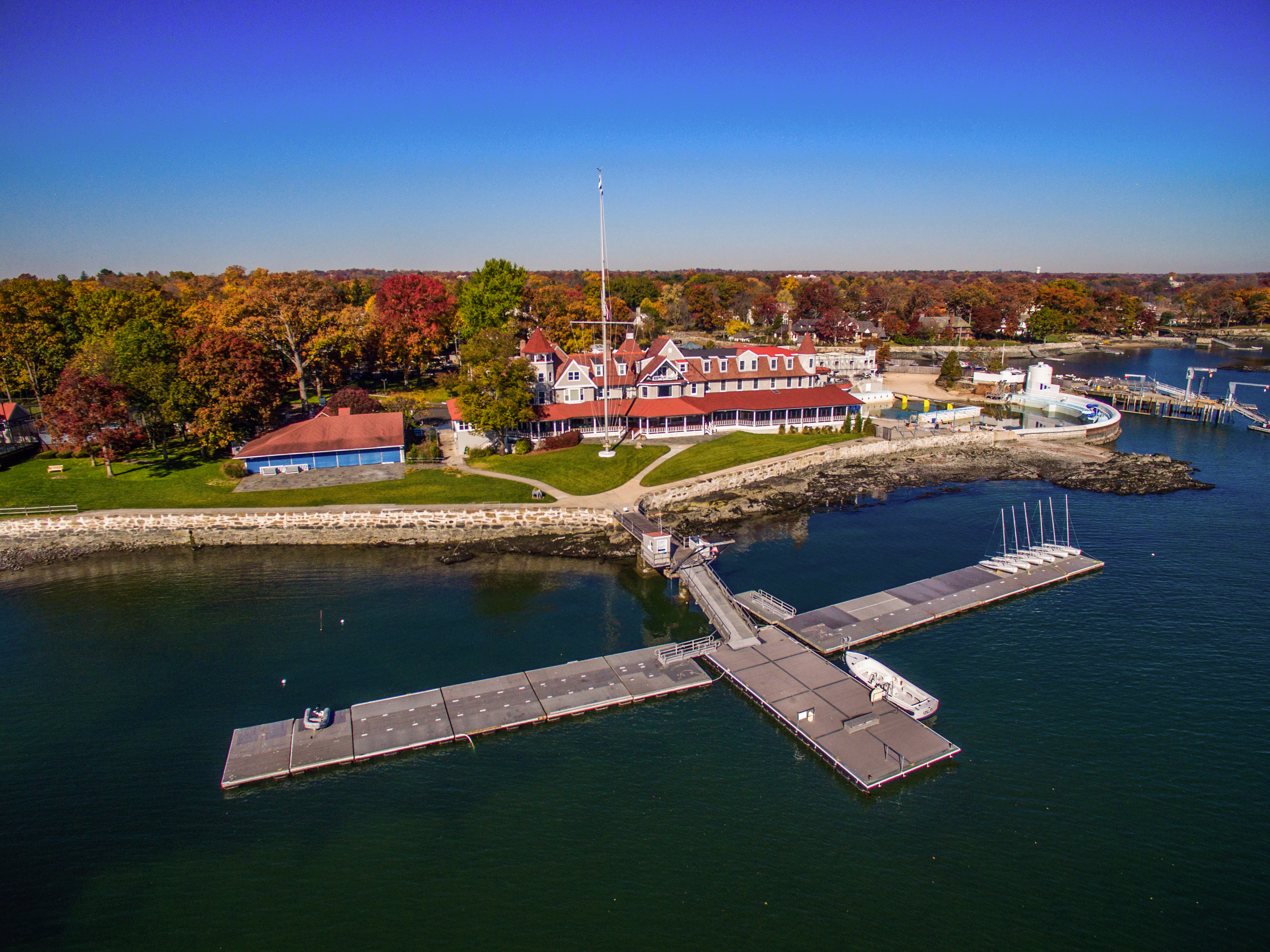 Aerial Shot Of the Larchmont Yacht Club shot via Drone 2016 by John O'Sullivan